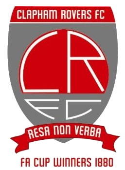 Logo of English team Clapham Rovers FC. The club was dissolved c. 1911.